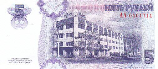 5 Transnistrian rubles